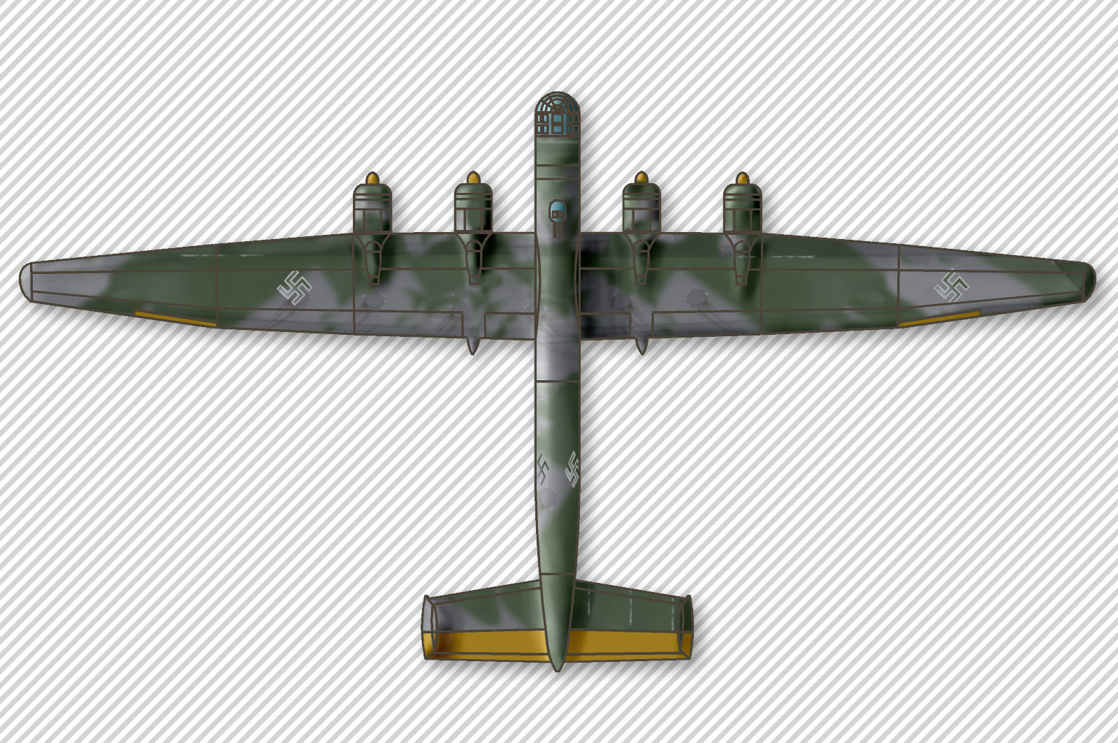 sketch of a Heinkel He 274